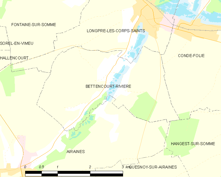 Map of French municipality Bettencourt-Rivière